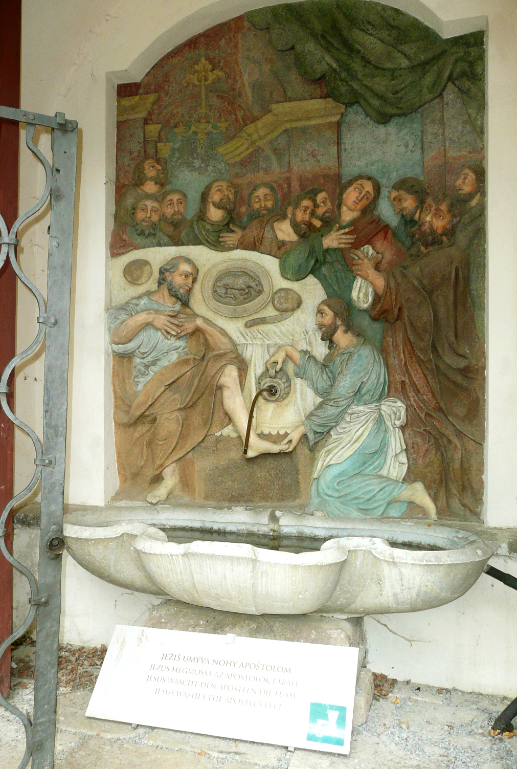 Calvary near Banská Štiavnica - Christ feet being washed